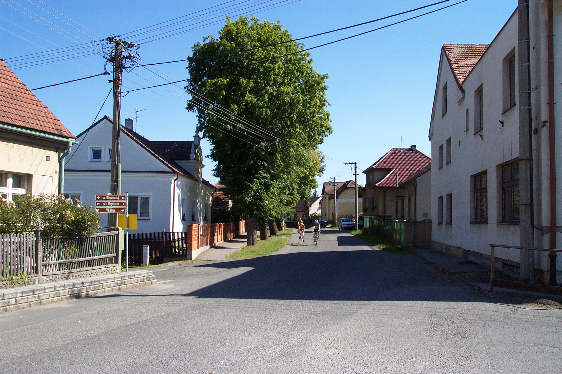 Druztová village in Plzeň Sever district near Plzeň, CZ